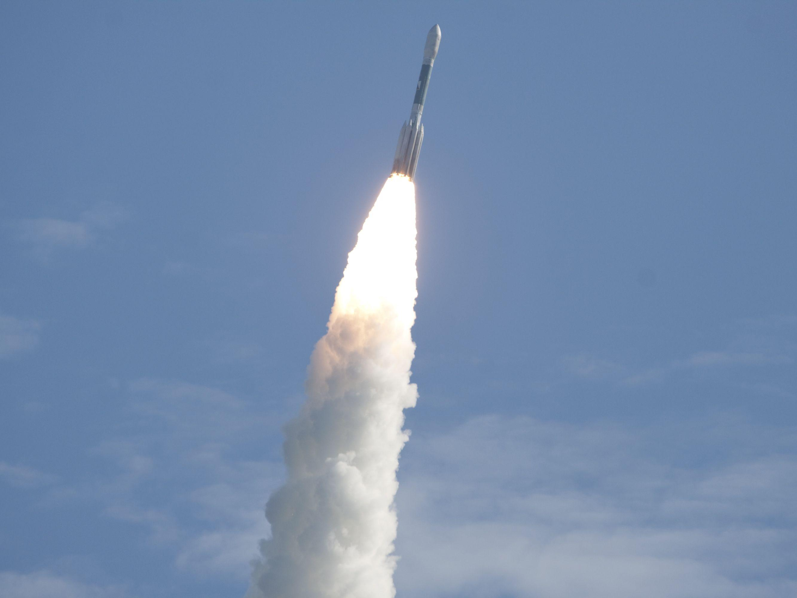 Fire and smoke light up a blue sky as a United Launch Alliance Delta II Heavy rocket propels NASA's Gravity Recovery and Interior Laboratory (GRAIL) mission into space.